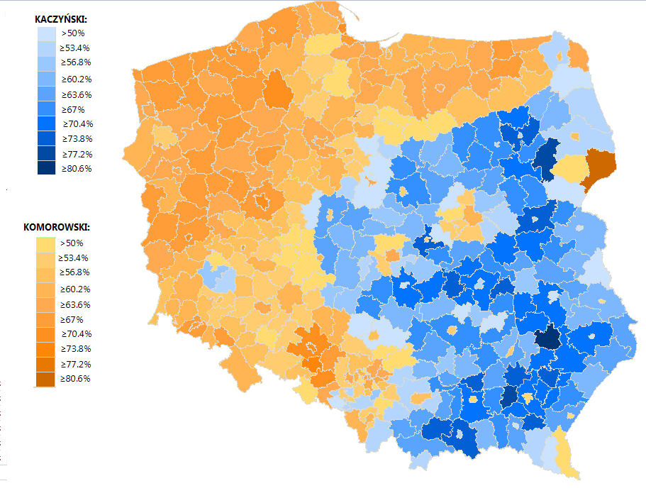 Map of which regions voted for what candidate in the second round of Polish presidential election